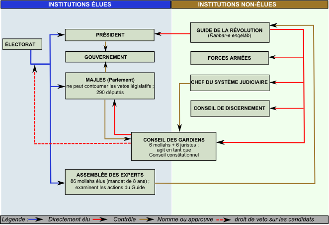 Government of Islamic Republic of Iran, french text